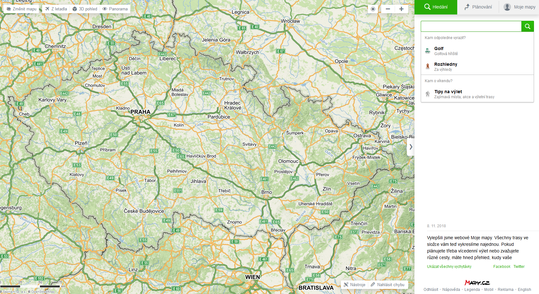 Mapy.cz in 2018 year.